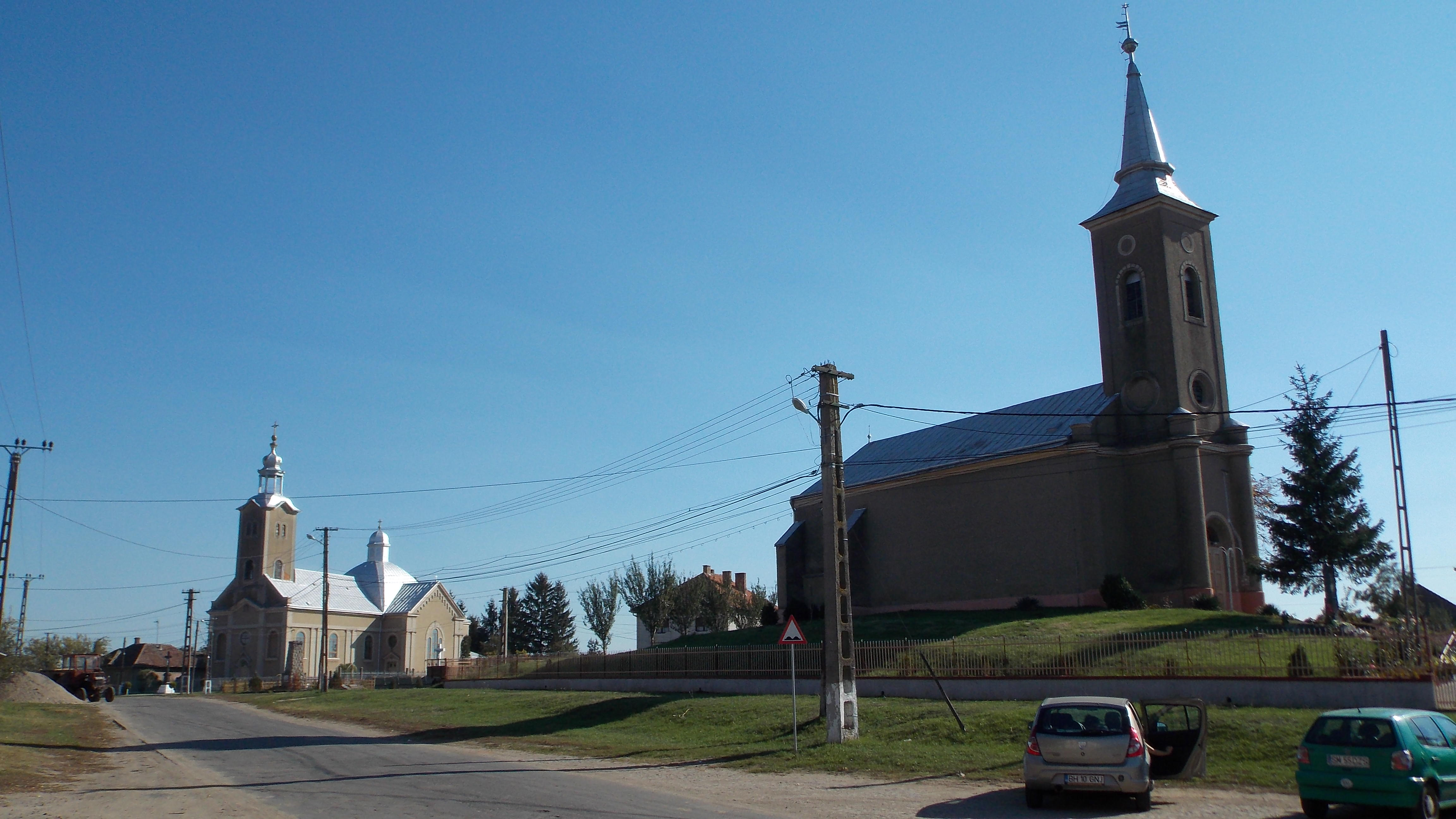 Village center, Sanislau, Satu-Mare county, RomaniaRomână: Centrul satului Sanislău, jud. Satu Mare